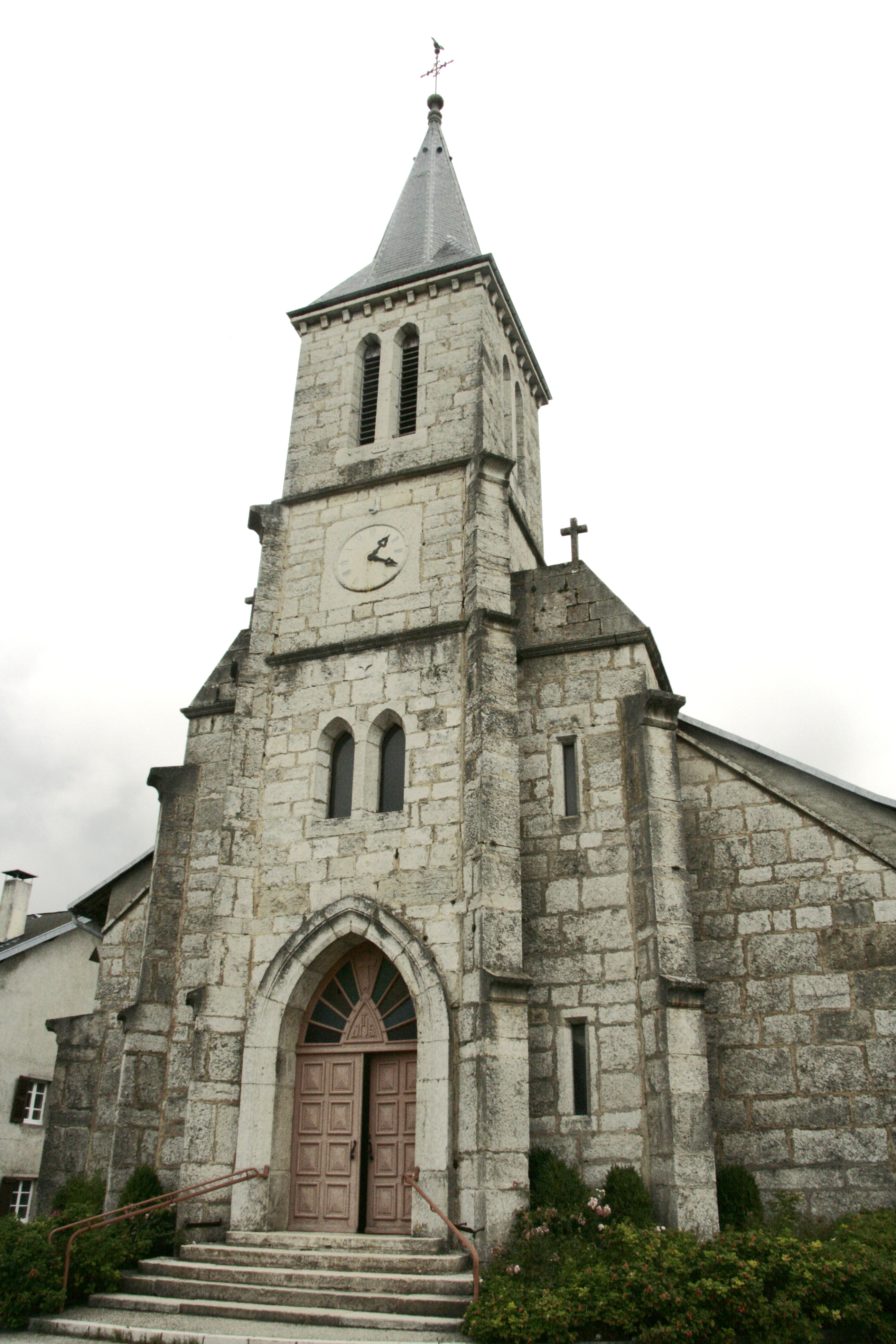 eglise d'aranc